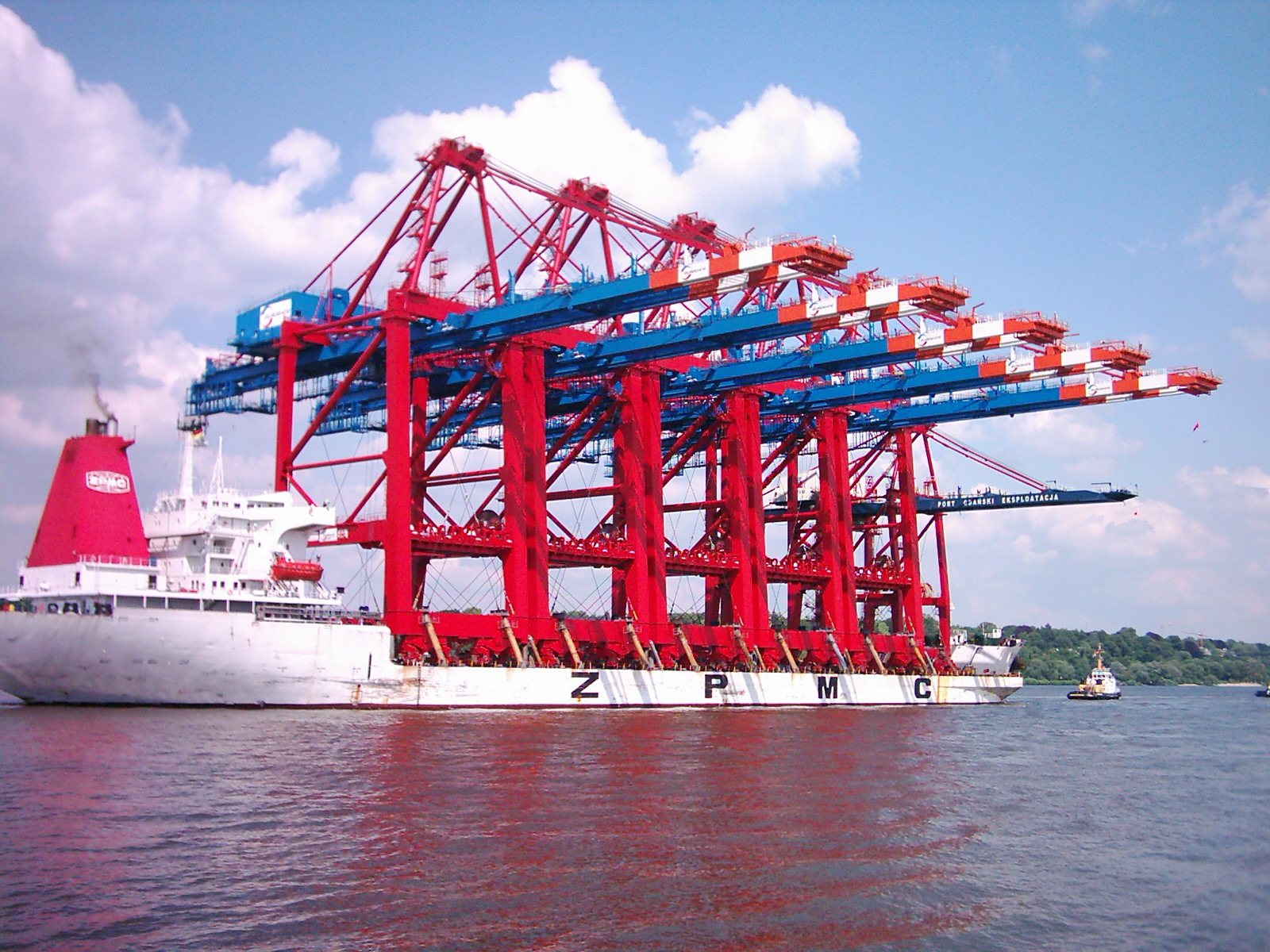 Transport of five gantry cranes for Eurogate Container-Terminal in Hamburg. Elbe, Finkenwerder, Germany. Information about Zhen Hua 20 may be found at IMO 7826180.A ship can change name and flag state through time, but the IMO number remains the same through the hull's entire lifetime. As a result, it can be useful to identify a ship by using the IMO number.